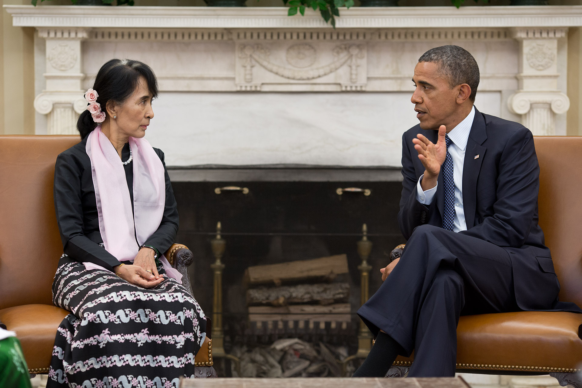 President Barack Obama meets with Opposition Leader Aung San Suu Kyi of Burma, in the Oval Office, Sept. 19, 2012. (Official White House Photo by Pete Souza)